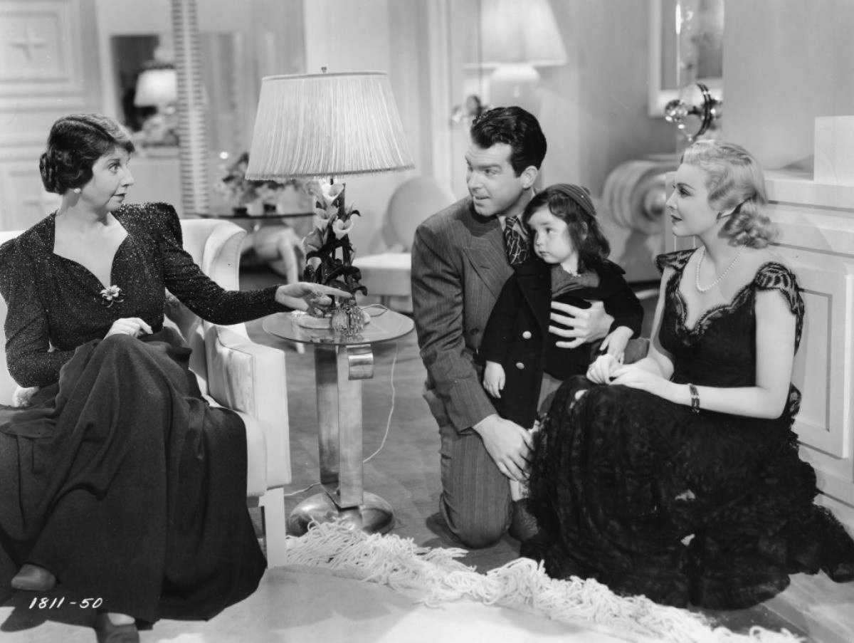 L. to R. : Helen Broderick, Fred MacMurray, Carolyn Lee et Madeleine Carroll in Honeymoon in Bali (aka My Love for Yours) - publicity still